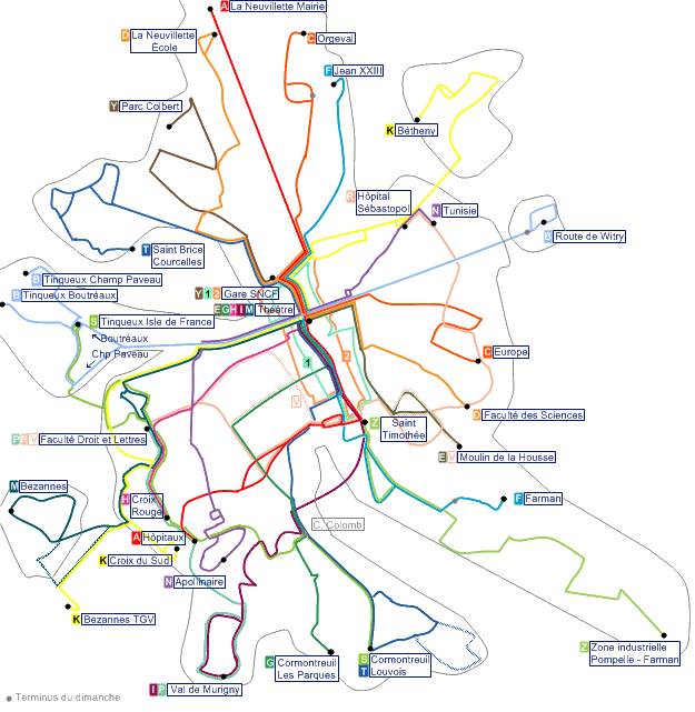 Schematic map of Reims' TUR buses network